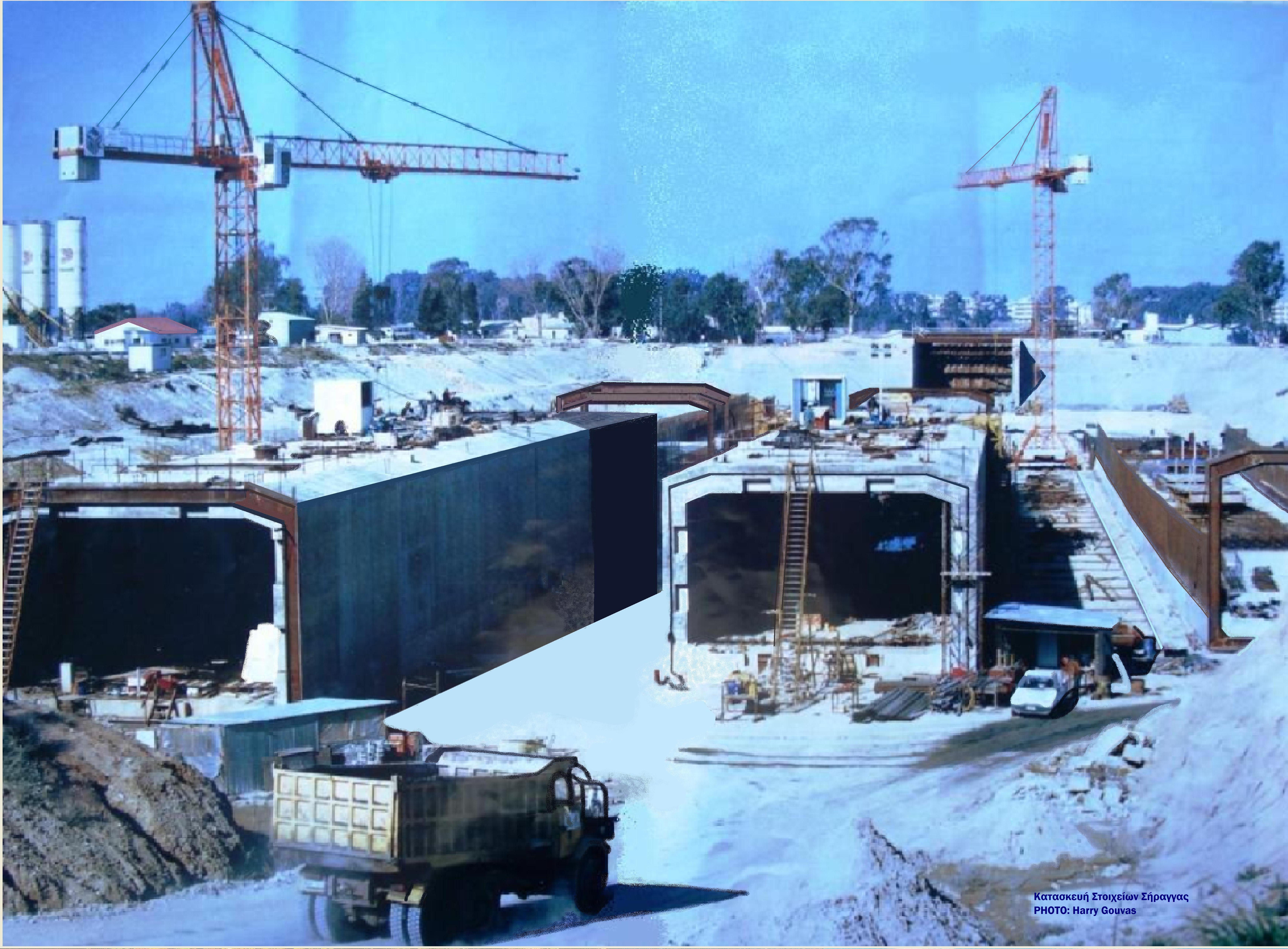 Aktio–Preveza Undersea Tunnel elements creation